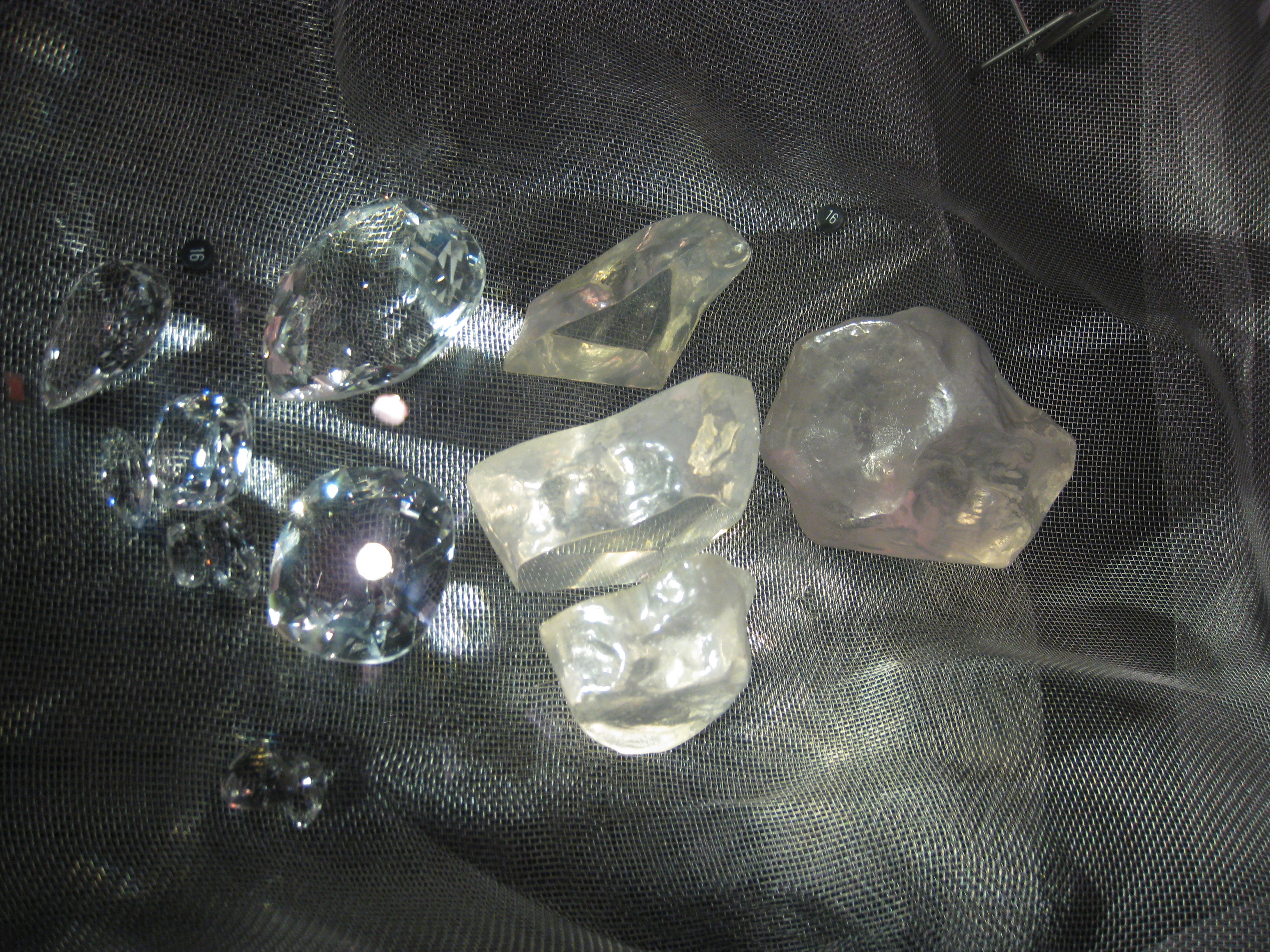 Exhibits of the Geological Museum, London - a model of the segments of the Cullinan Diamond